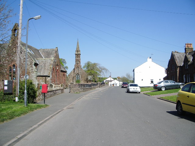 Westnewton, near to Westnewton, Cumbria, Great Britain. Looking NE on the main street with the school and church on the left hand side